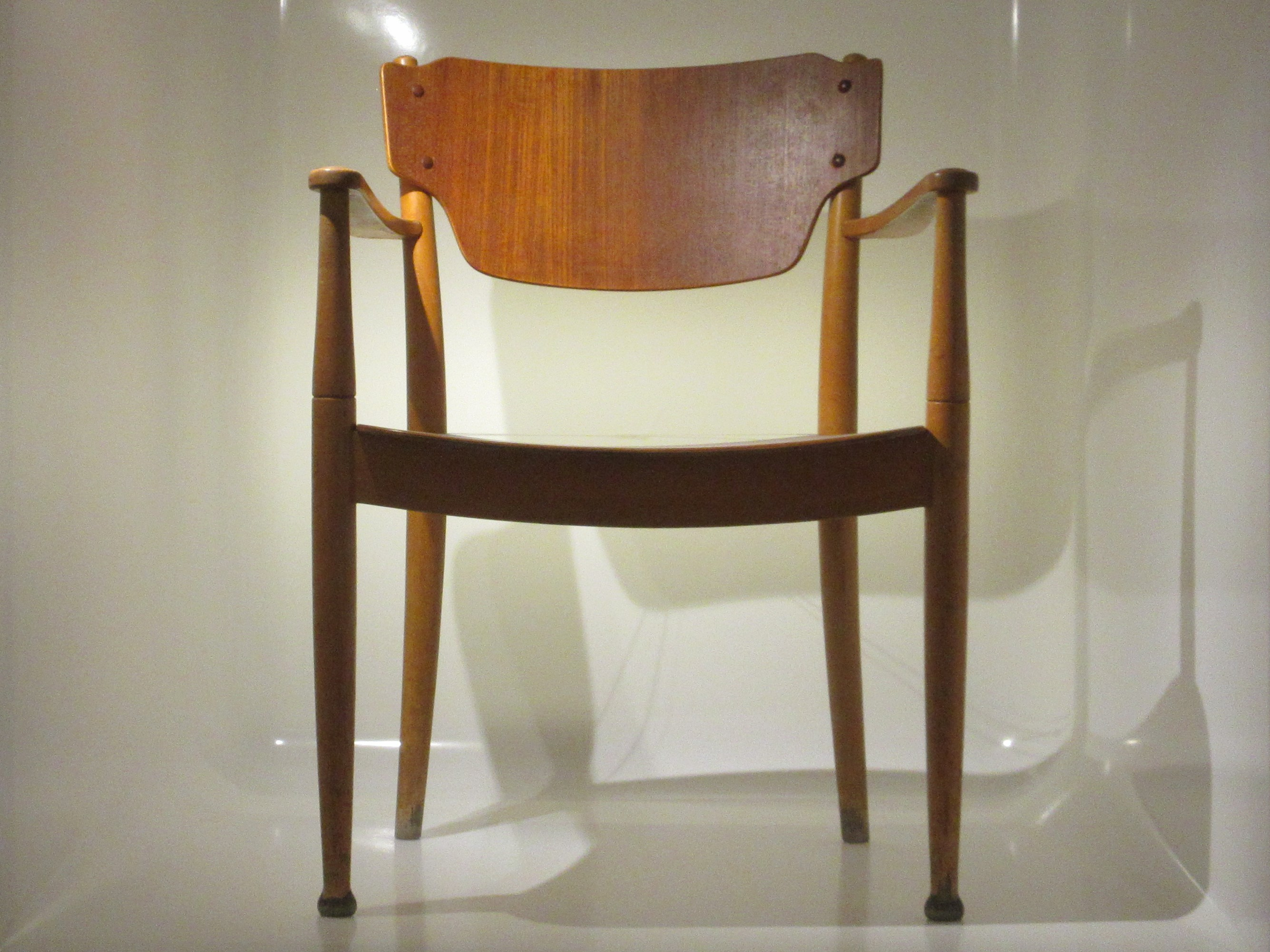 Peter Hvidt & Ole Mølgaard's Portex chair from 1045 on display in the Danish Design Museum in Copenhagen, Denmark